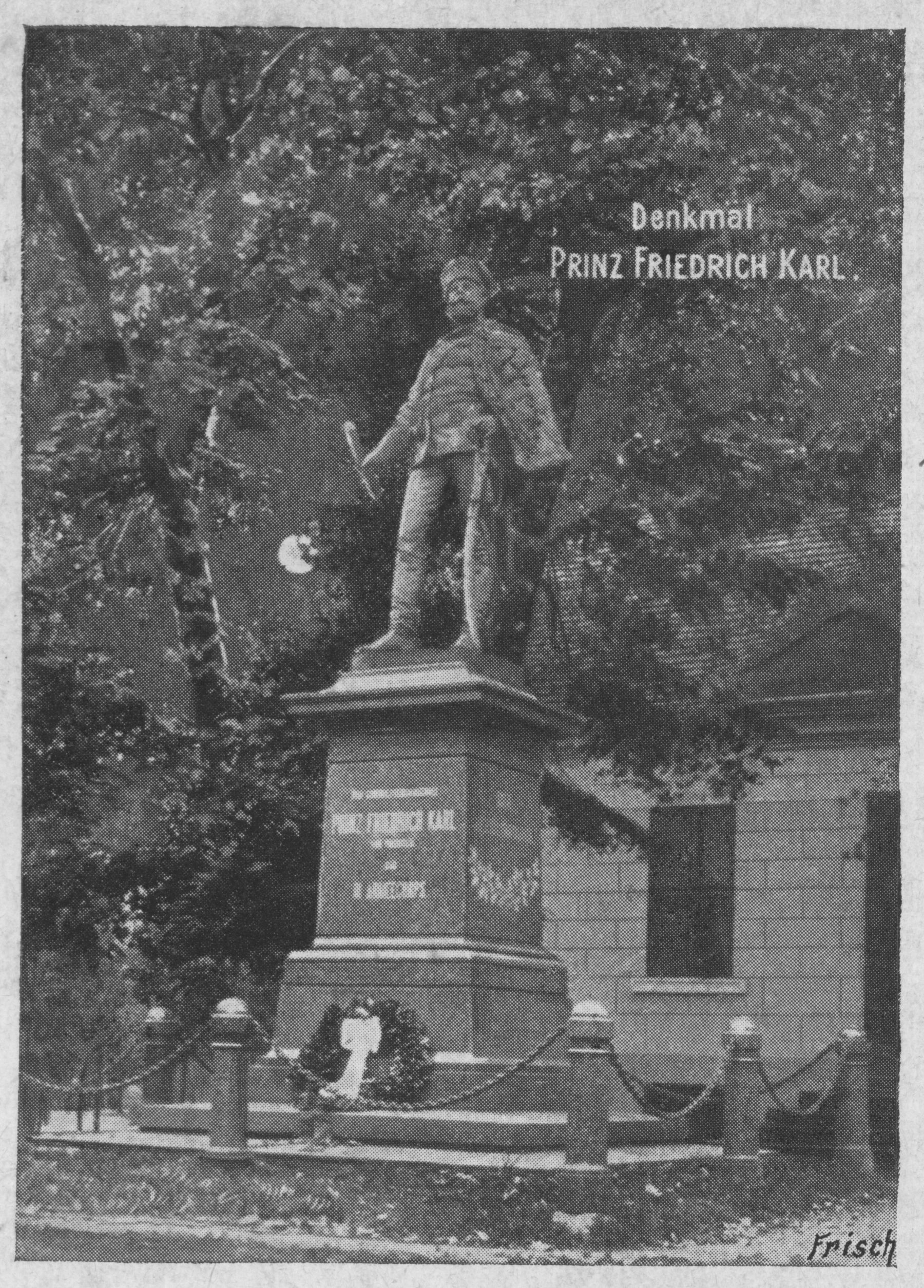 Monument to Prince Frederick Charles of Prussia, sculpted by Max Unger, in front of the St. Gertraud rectory in Frankfurt (Oder), Germany.